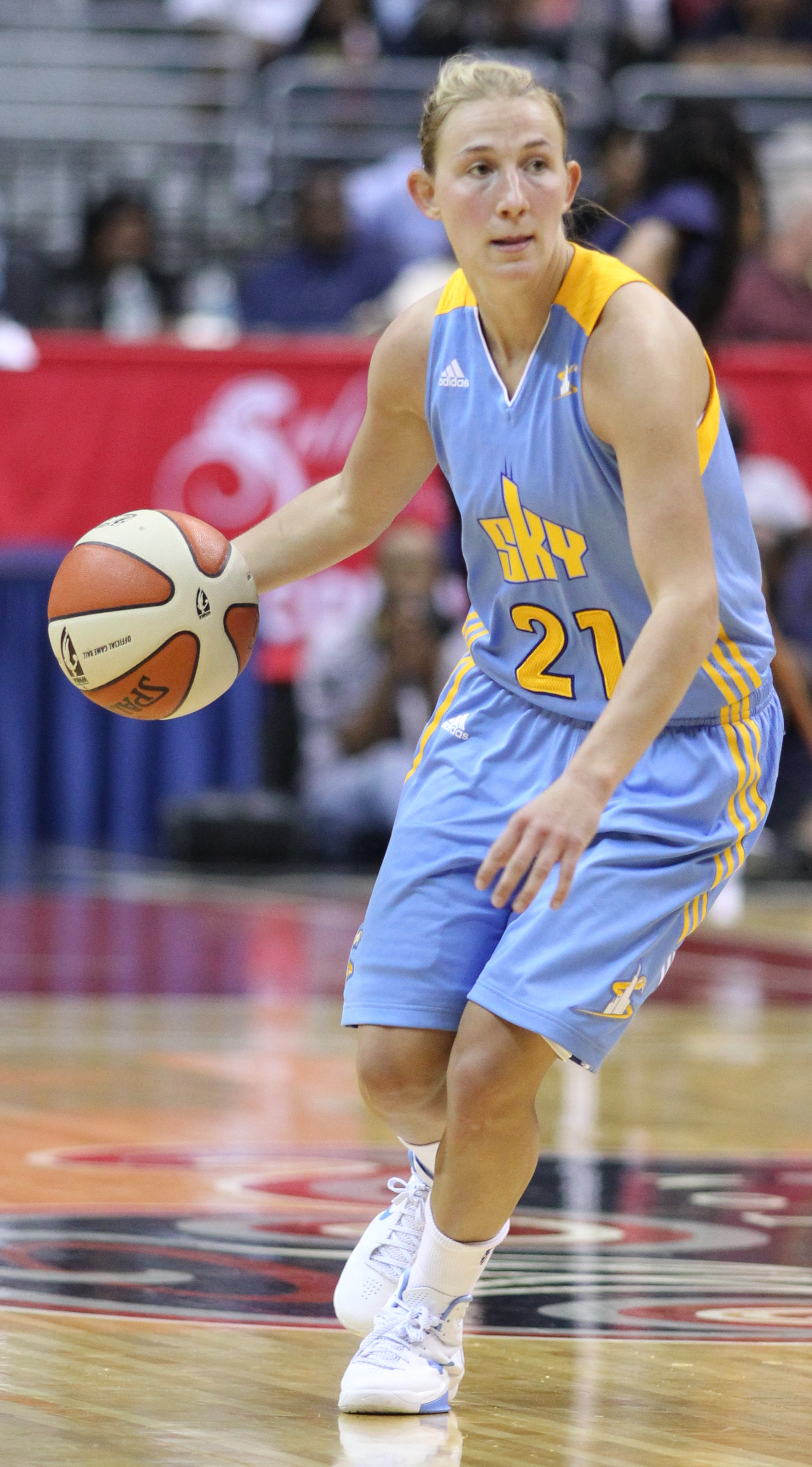 Courtney Vandersloot of the Chicago Sky (at time of photo)